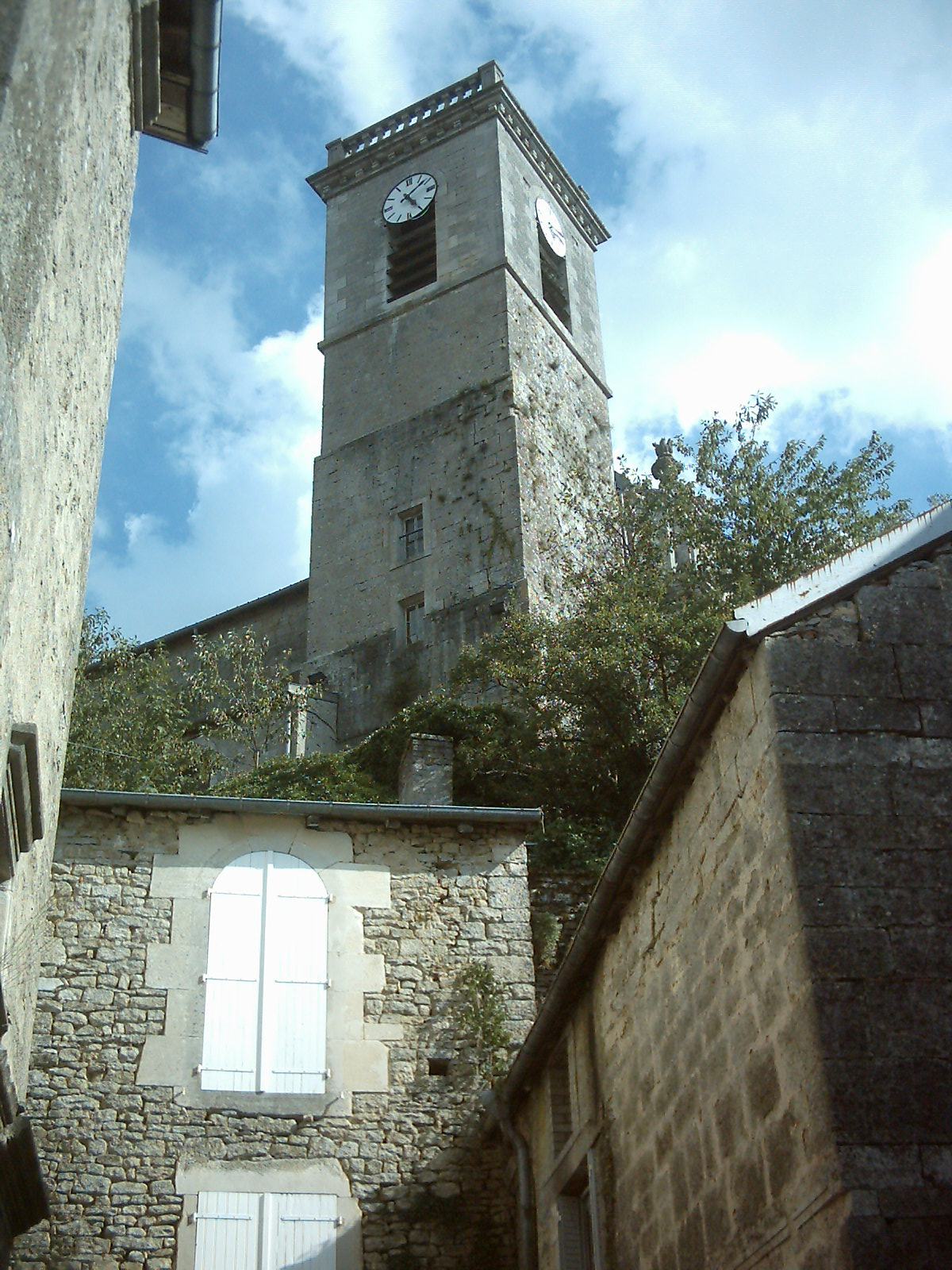 Higher church of Bourmont (52150, France)